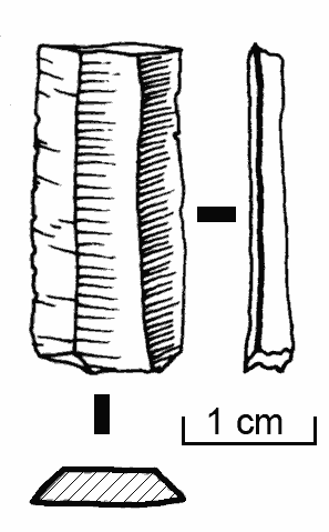 Lithic blade in flint (broken) from a site dated on the Copper Age in Fresno de la Ribera (Zamora, Spain)